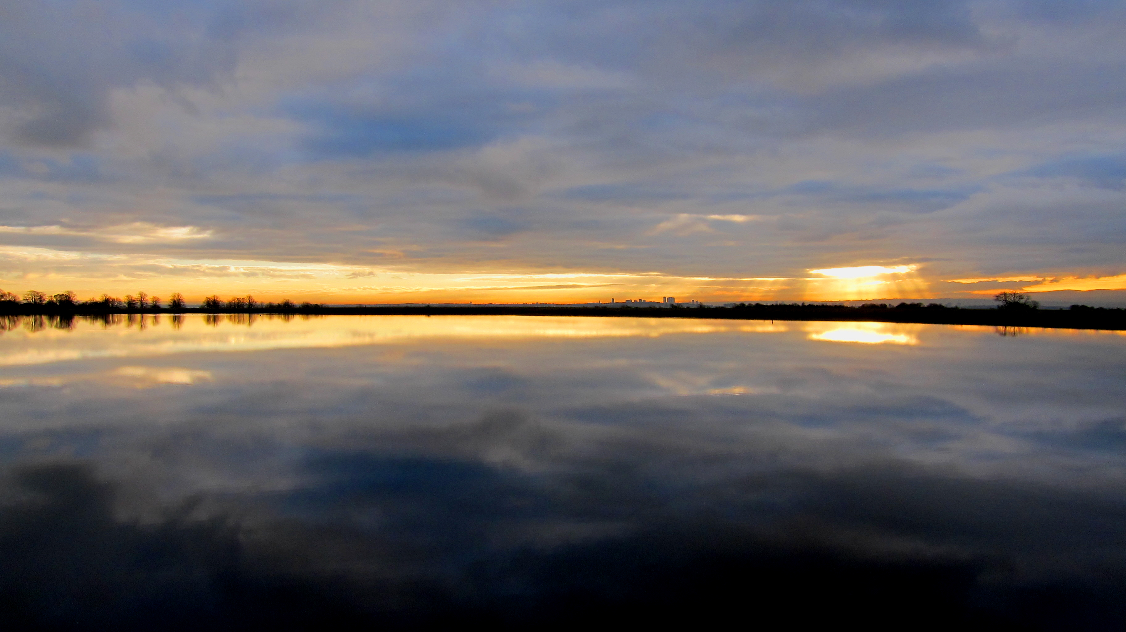 Mugdock Reservoir Glasgow 18th December 2012